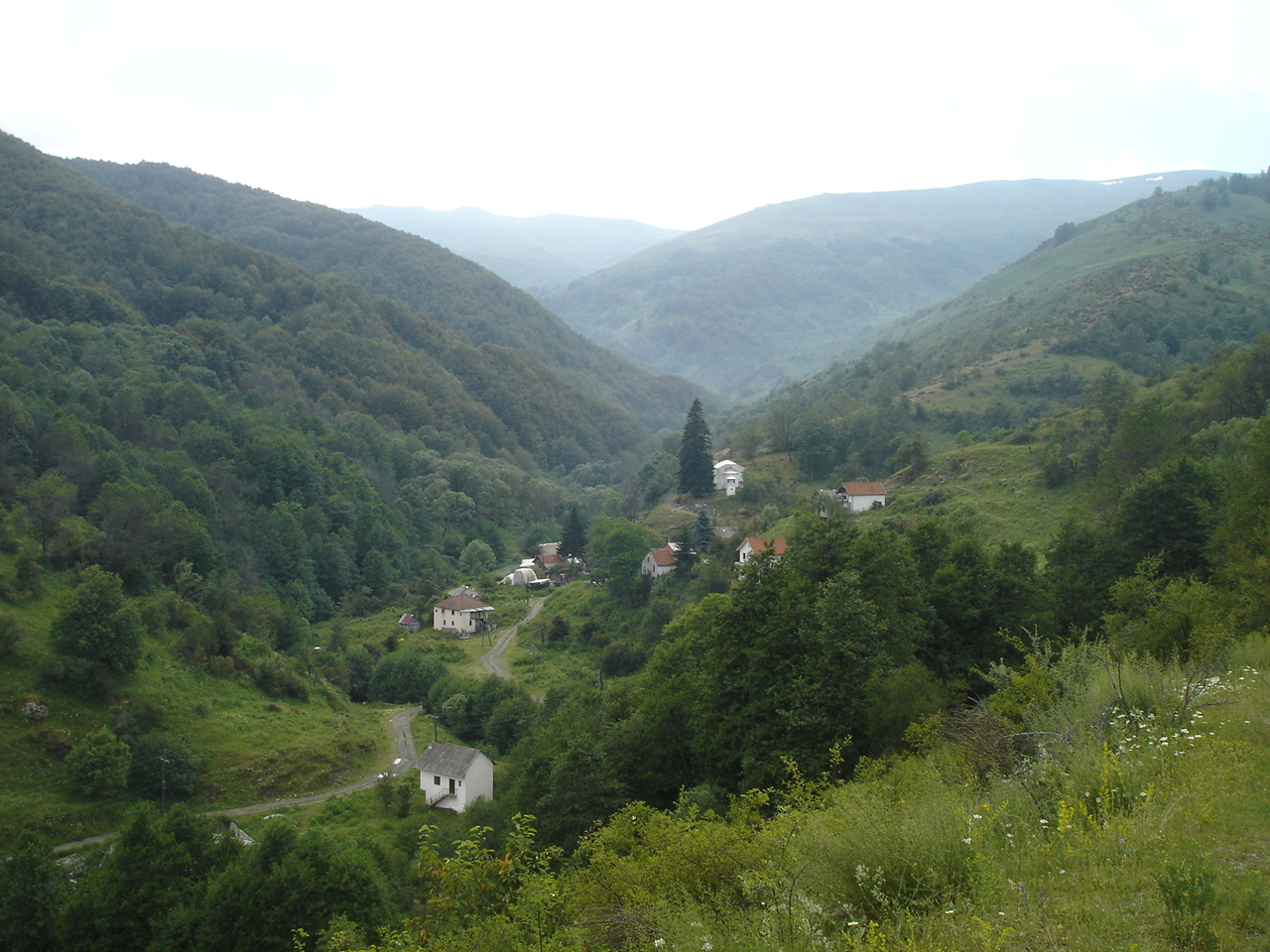 Gorno Jelovce, village on Shar Mountain, near Gostivar, Macedonia